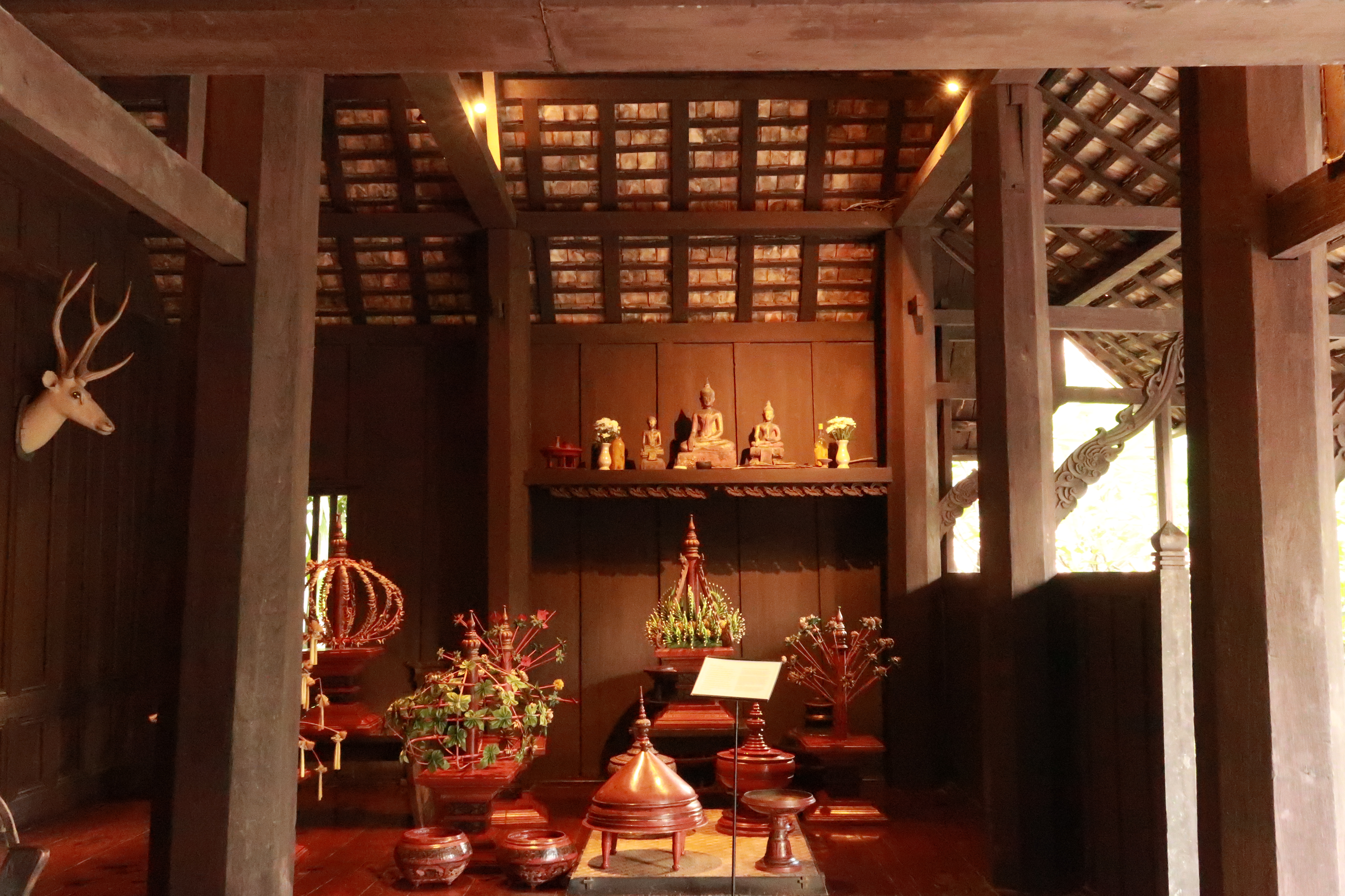 A display at the ethnological museum in the Kamthieng House at the Siam Society, Bangkok